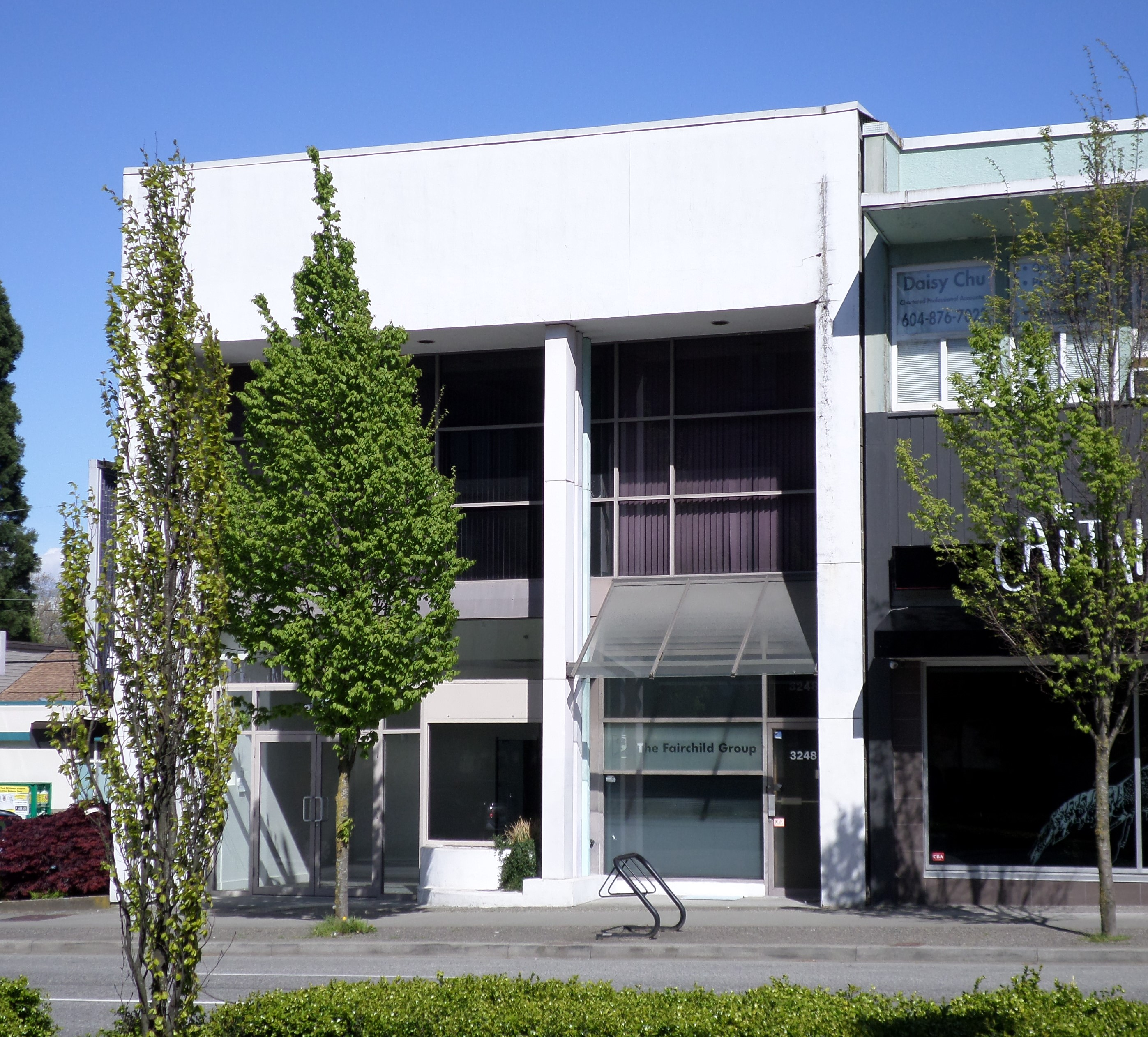 The headquarters of the Fairchild Group, located at 3248 Cambie St, Vancouver, BC.